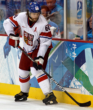 Jaromir Jagr, Olympics 2010